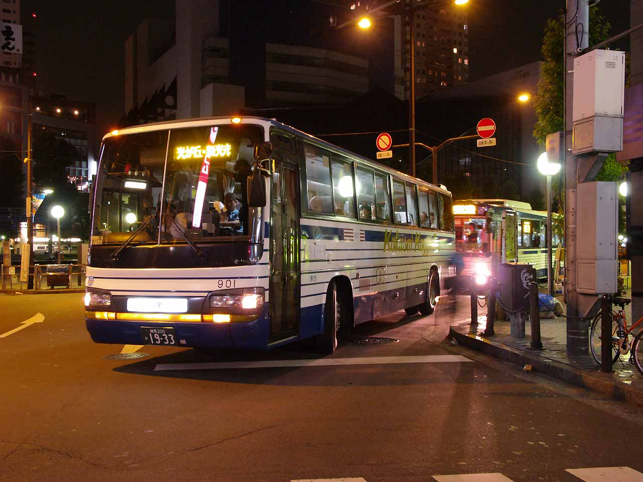 Fleet of Kokusai kogyo Bus, operatef for "Midnight Arrow Hikarigaoka". Model: Hino Selega R KL-RU4FSEA License Plate: TKN200 KA1933 Place: Ikebukuro station west, Nishi-Ikebukuro, Toshima ward, Tokyo Japan